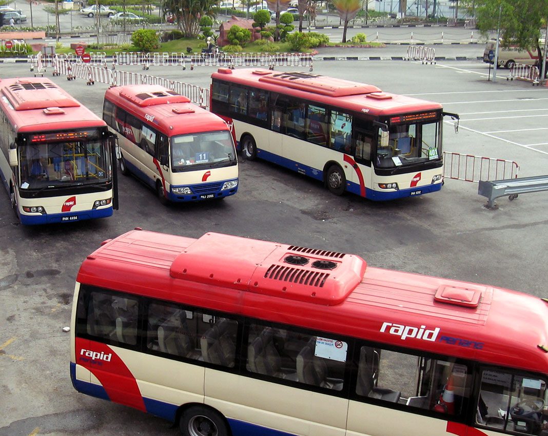 Established back in July 2007, Rapid Penang is now one of the leading bus operators in Penang. We attribute our rapid growth to our dedicated workforce who constantly strive to improve our current services to the public, and are equally thankful to the people of Penang for their support since the birth of the company. Many years are ahead of us and we will continue to work hard in bringing quality public transportation to all commuters.